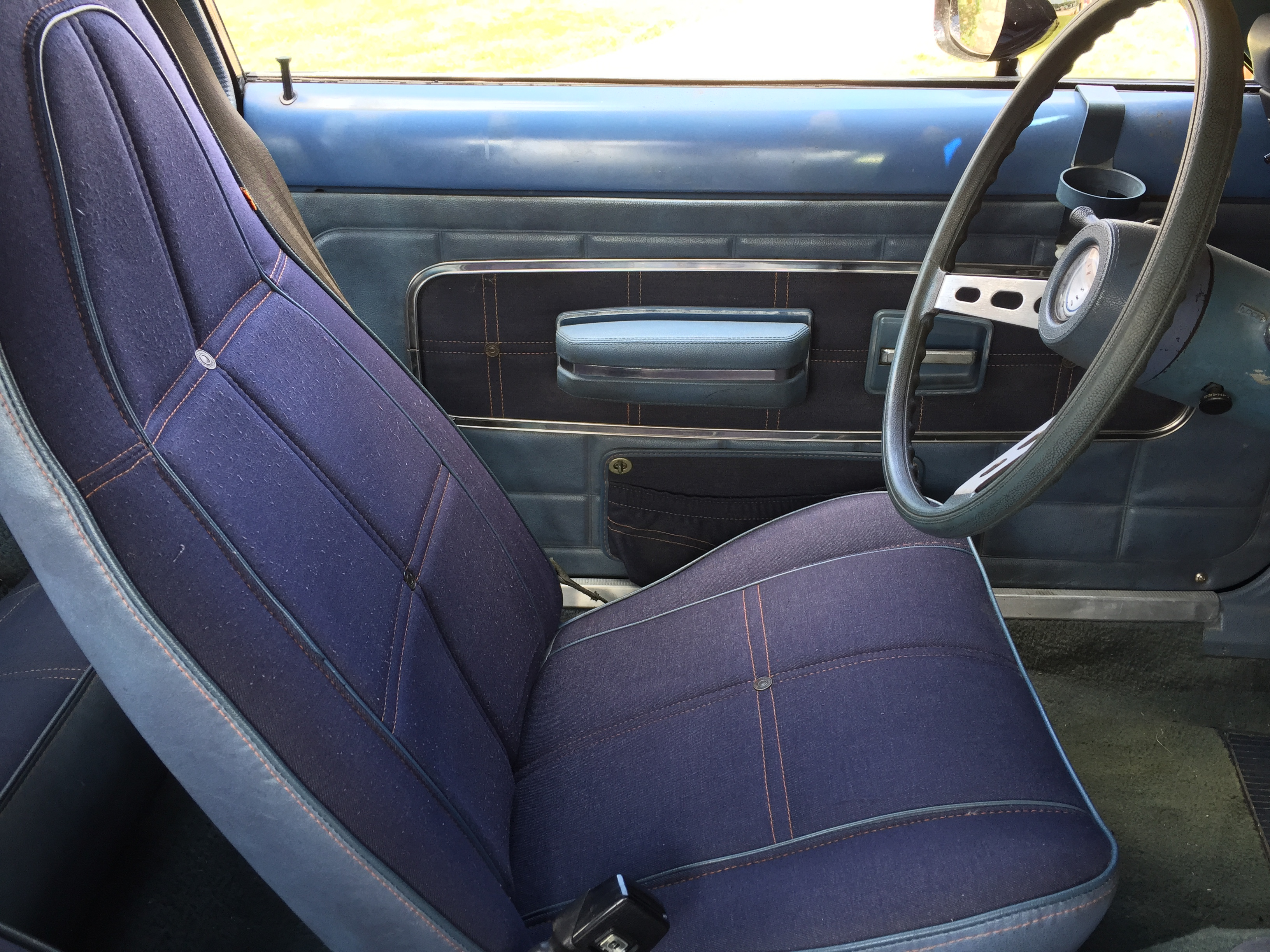 1974 AMC Gremlin, a subcompact car built by American Motors Corporation (AMC). This black car features the optional Levi’s interior trim option. Real denim was not used because it was not tough enough to serve as automobile upholstery. AMC turned to spun nylon that looked like the genuine article, as well as copper Levis rivets, traditional contrasting stitching, and even the Levi’s tab on both the front seat backs. The option also included unique door panels with Levis trim and removable map pockets, as well as Levis decals on the front fenders. This car also has AMC's tachometer. Picture taken at the car show on Saturday, July 25, 2015, during the American Motors Owners Association (AMO) annual convention that was held near Cleveland, Ohio.